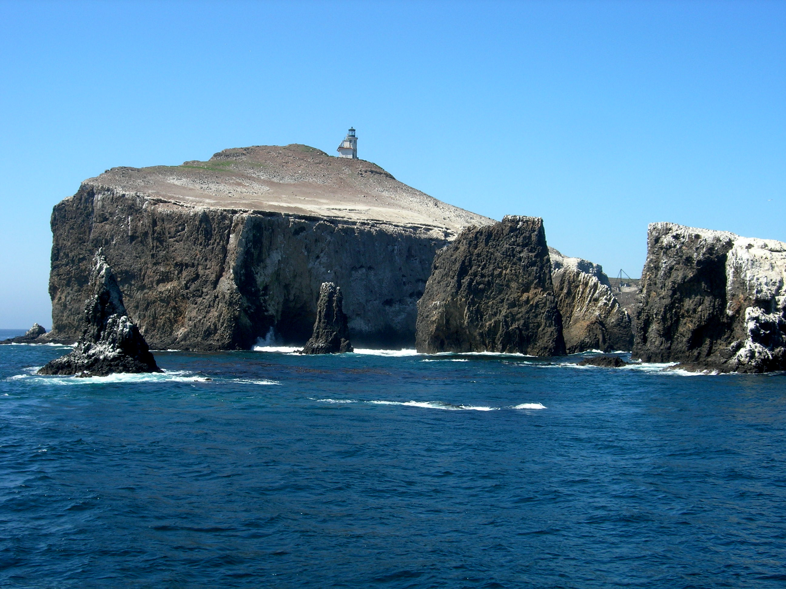 Anacapa Island Lighthouse, off the coast of California.